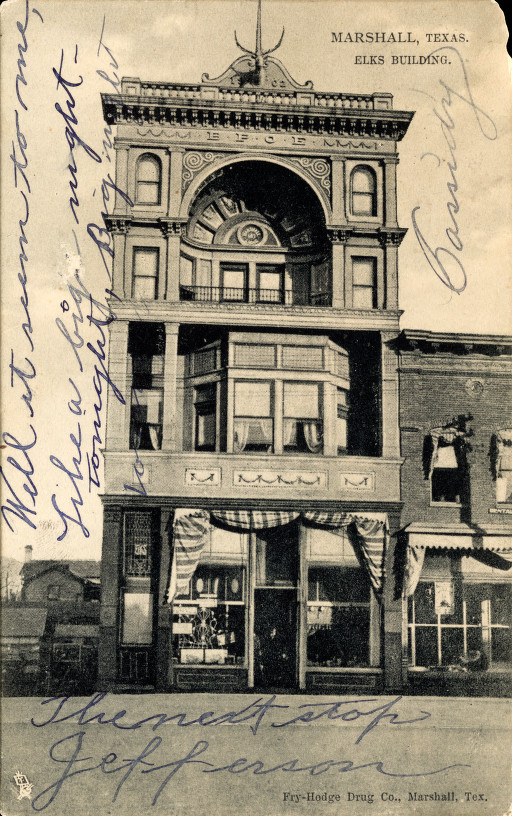 Elks Lodge, Marshall, Texas